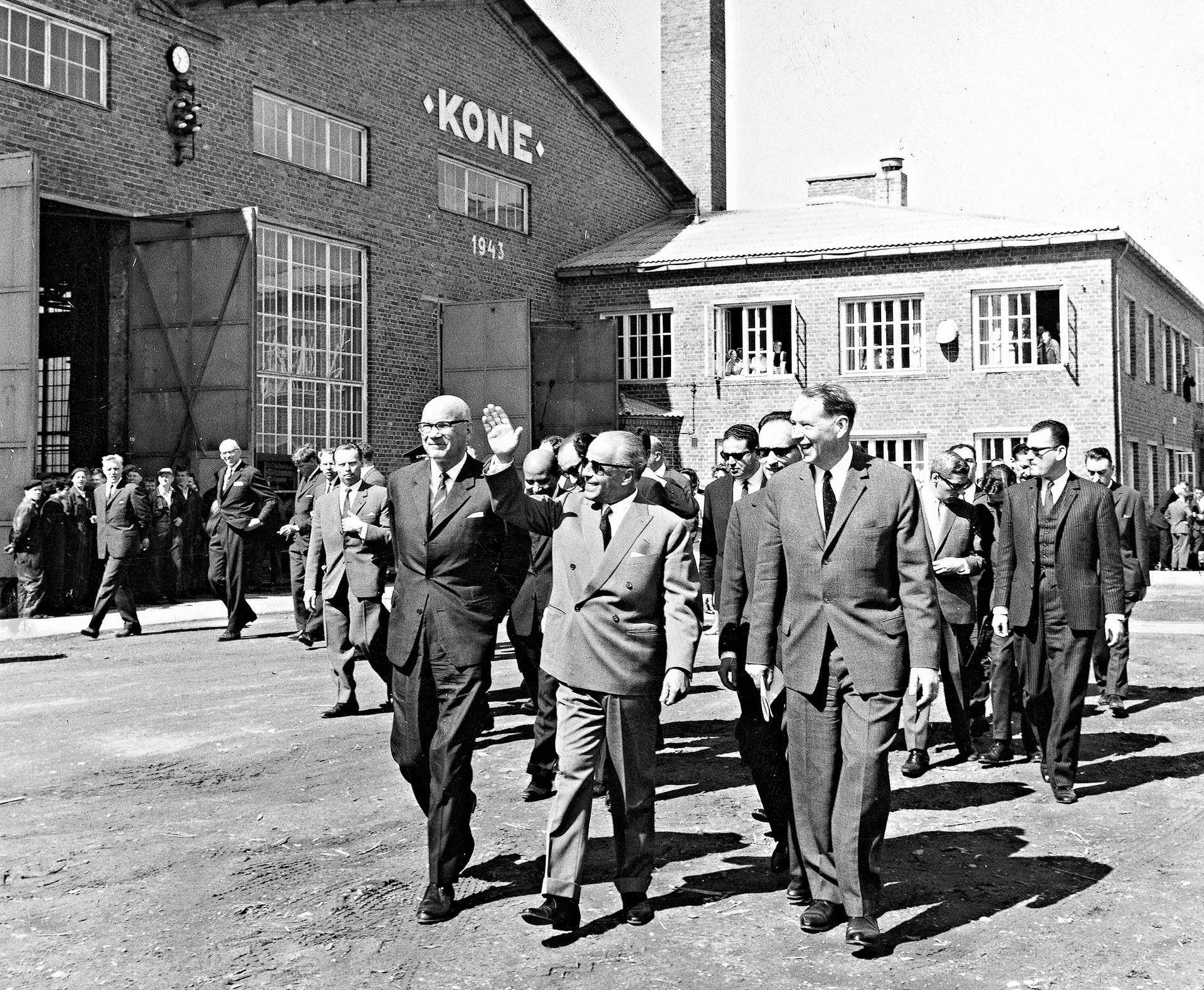 Photograph of the Tunisian President Habib Bourguiba visiting Hyvinkää, Finland, in 1963. To the left, Finland’s President Urho Kekkonen; to the right, Heikki Herlin of Kone Concern.